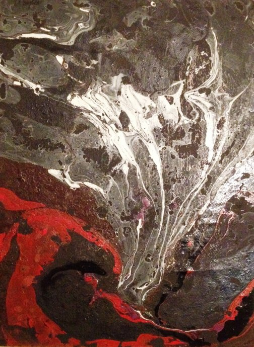 DuSko Sojlev Oil on cardboard